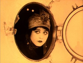 A Fool There Was is a 1915 American silent drama film. This is a scene from the film.